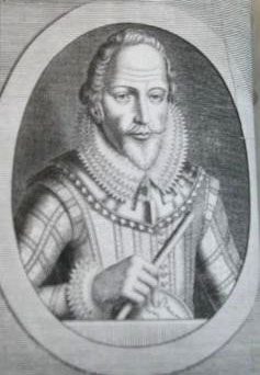 John Davis